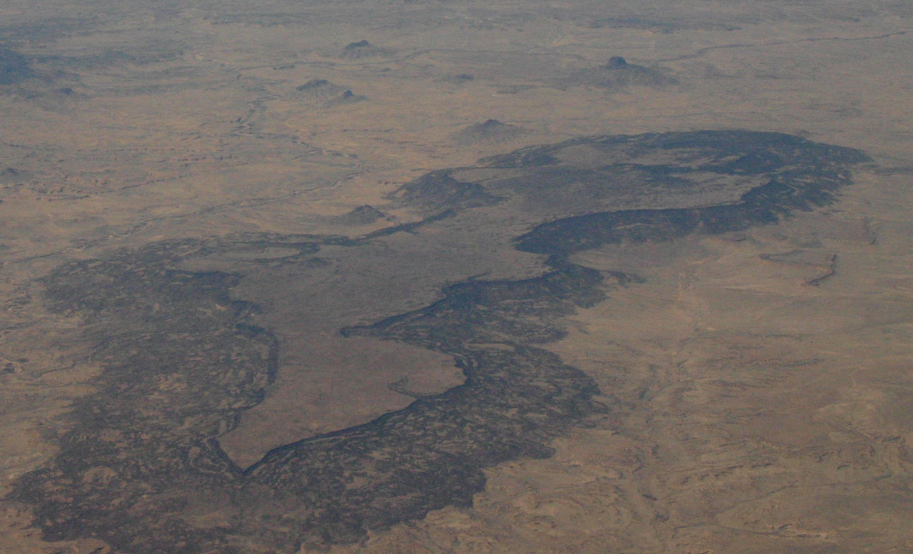 Oblique air photo of Prieta Mesa in Sandoval County, New Mexico. Facing northwest, March 2007. Brightness and contrast enhanced.